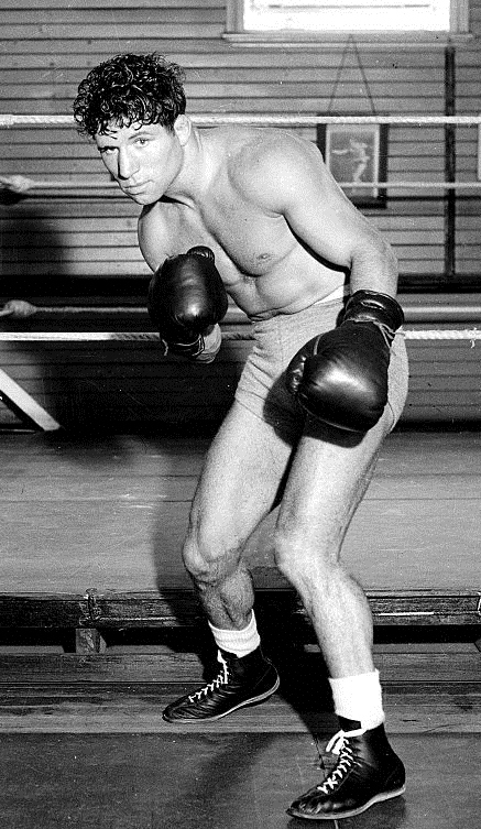 Visiting Dutch boxer, Bep van Klaveren, taking a training session at a spa in Coogee, 25 November 1935. SMH NEWS Pictures by STAFF